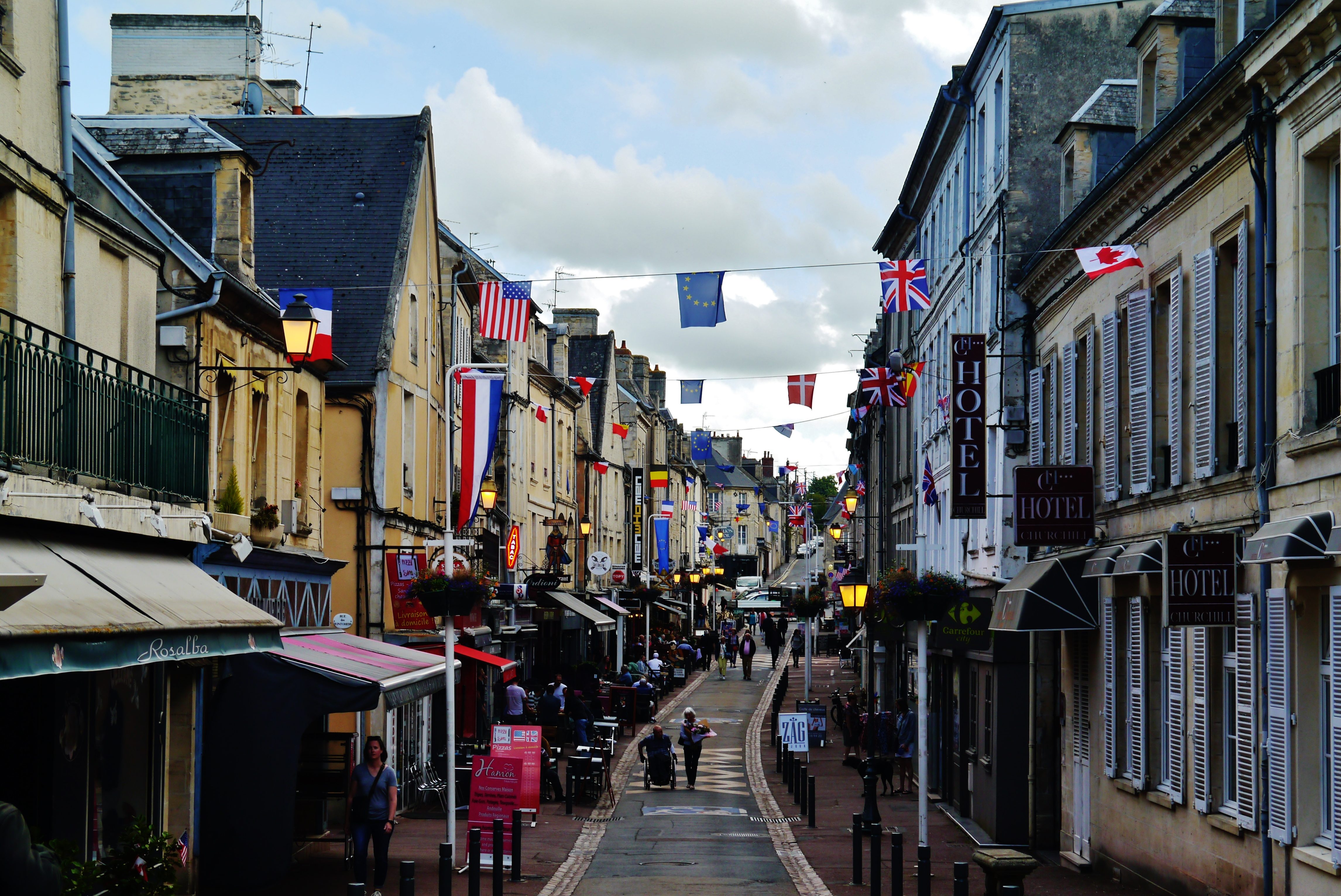 Street of St. John, Bayeux, Department of Calvados, Region of Normandy (former Lower Normandy), France